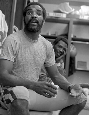 Football player Calvin Hill in the locker room of the Cleveland Browns in 1979.